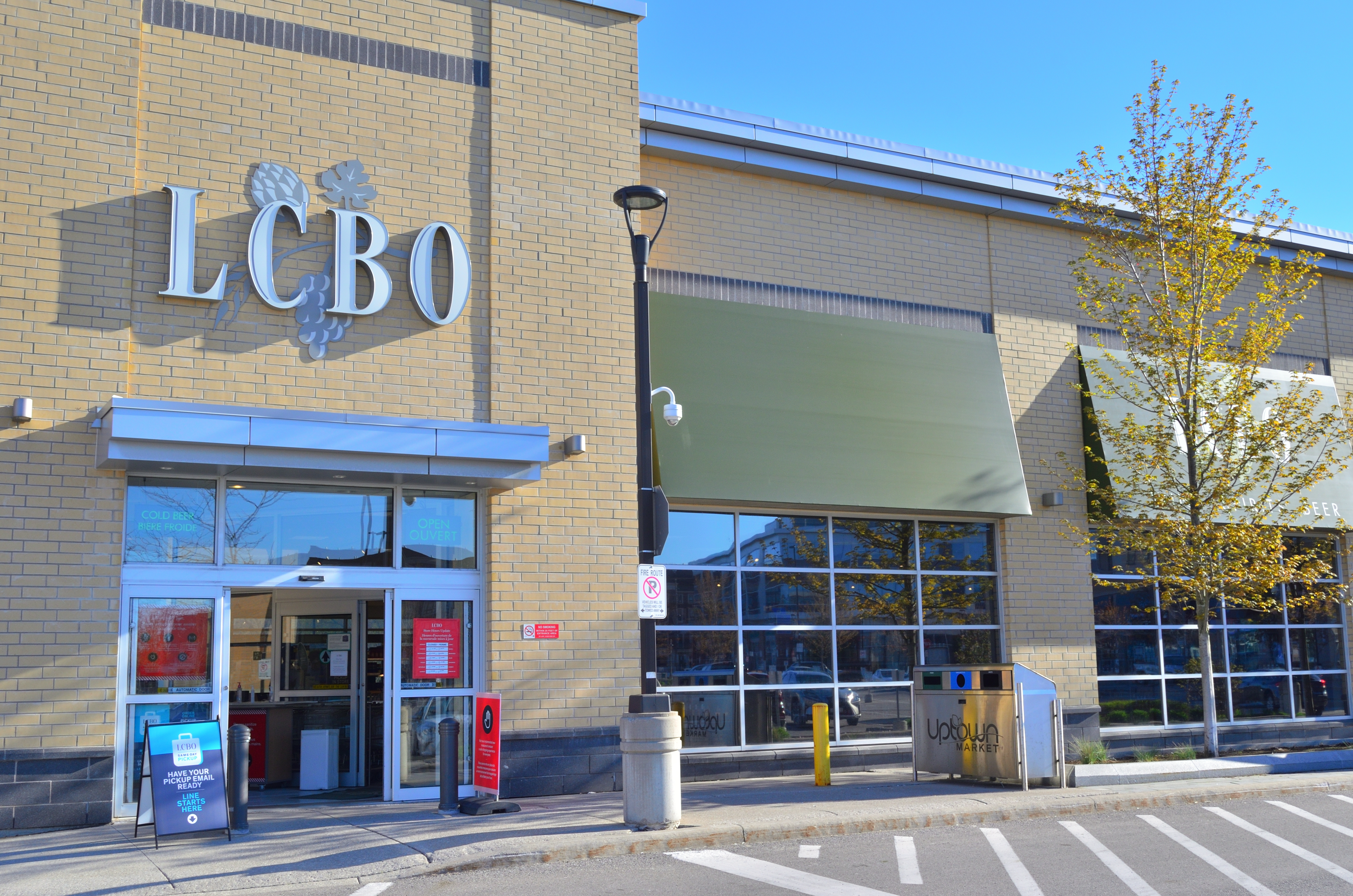 LCBO at Uptown Market, Markham